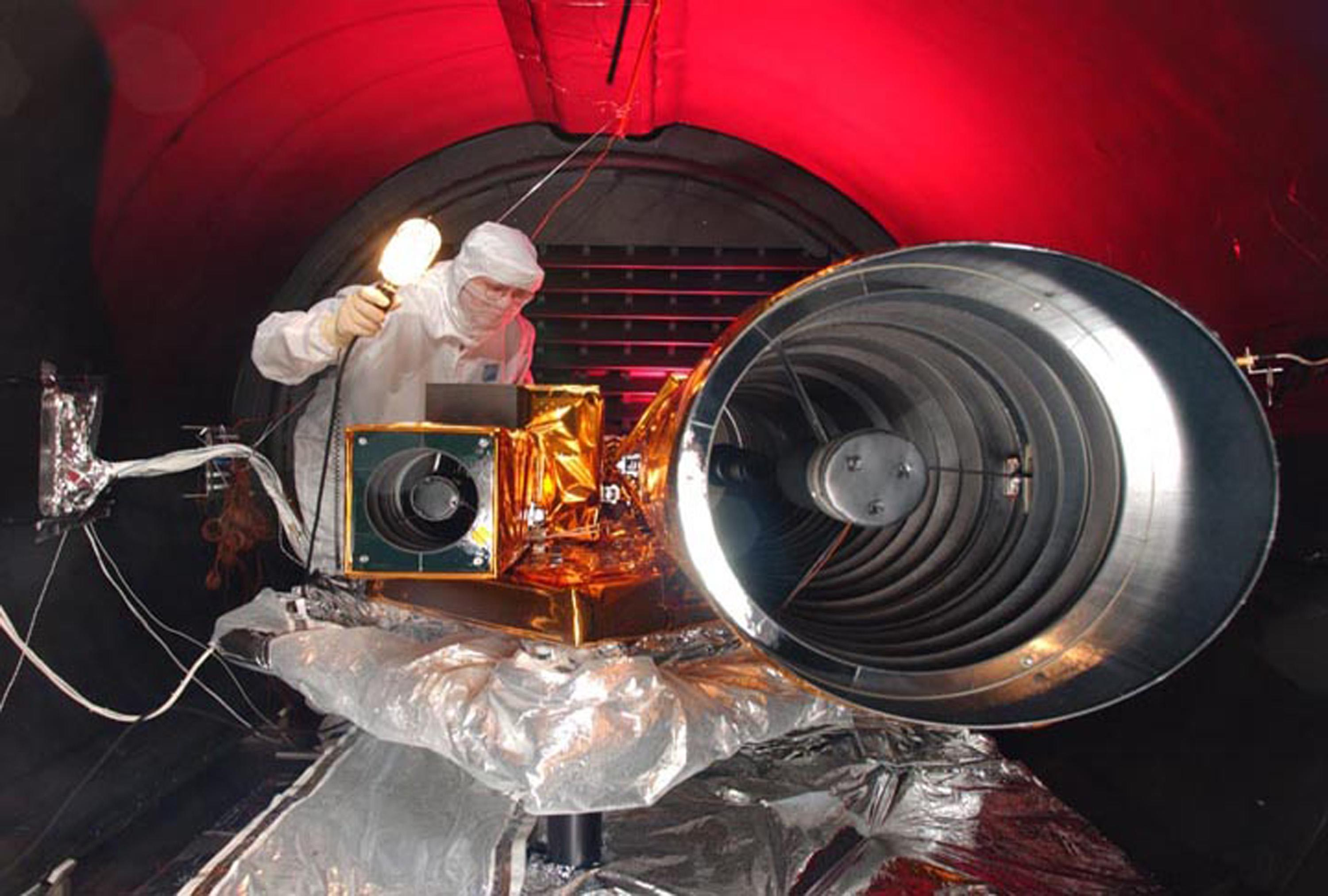 original description: At Ball Aerospace in Boulder, Colo., a thermal vacuum test is conducted on Deep Impact instruments in the instrument assembly area in the Fisher Assembly building clean room. The High Resolution Instrument (HRI, at right) is one of the largest space-based instruments built specifically for planetary science. It is the main science camera for Deep Impact, providing the highest resolution images via a combined visible camera, an infrared spectrometer and a special imaging module. Deep Impact will probe beneath the surface of Comet Tempel 1 on July 4, 2005, when the comet is 83 million miles from Earth, and reveal the secrets of its interior. After releasing a 3- by 3-foot projectile (impactor) to crash onto the surface, Deep Impact’s flyby spacecraft will collect pictures and data of how the crater forms, measuring the crater’s depth and diameter, as well as the composition of the interior of the crater and any material thrown out, and determining the changes in natural outgassing produced by the impact. Deep Impact is a NASA Discovery mission. Launch of Deep Impact is scheduled for Jan. 12 from Launch Pad 17-B, Cape Canaveral Air Force Station, Fla.